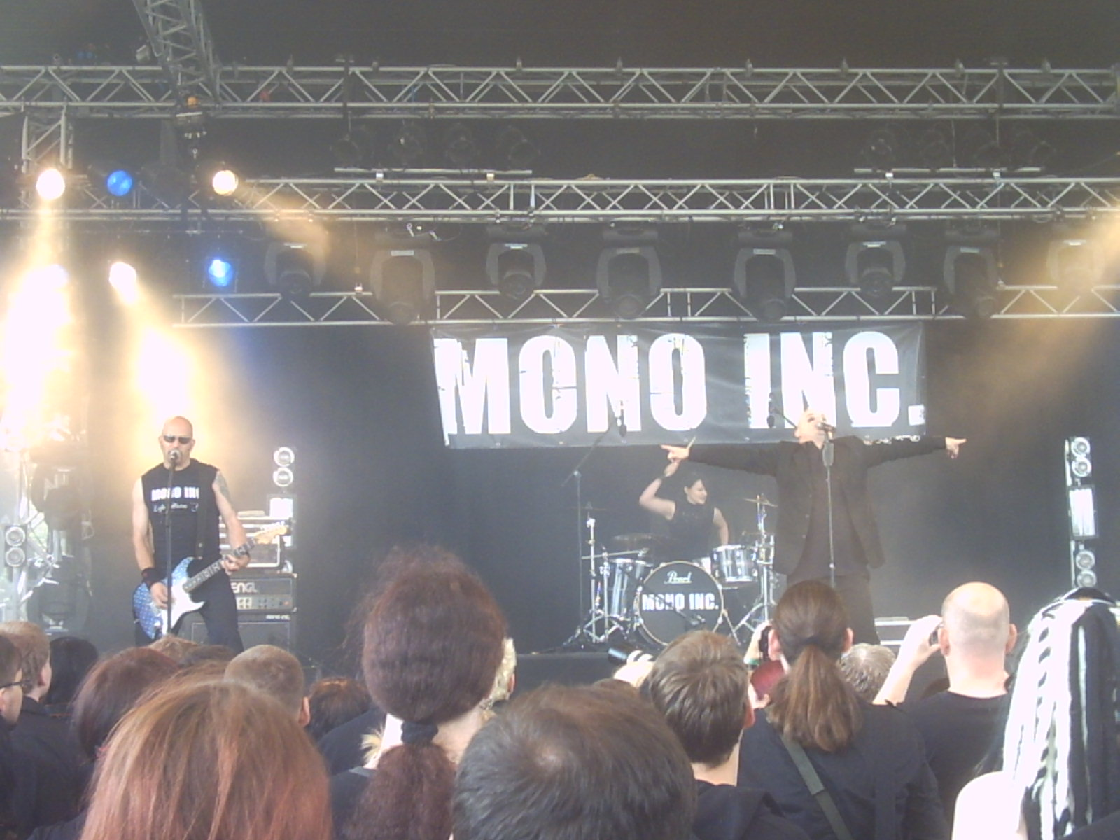 Mono Inc. at the Amphi Festival 2009 in Cologne